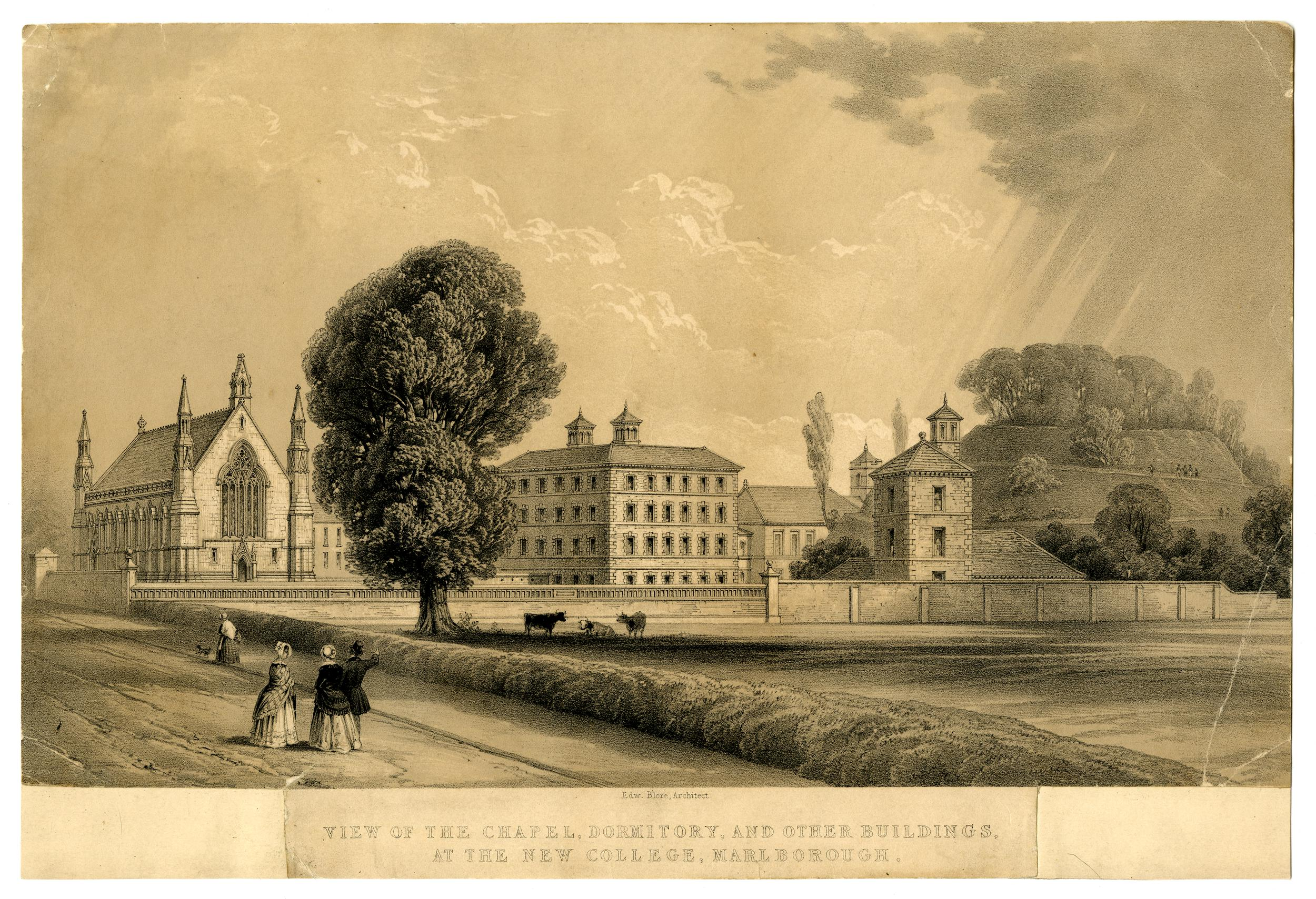 View of Marlborough, with tow ladies talking to a man in the foreground, he gestures towards the buildings in front of them, a field to the right with a tree and three cows resting, the chapel to the left, and figures going up Marlborough Mound in the right. Lithograph